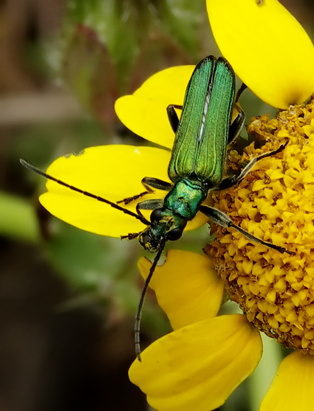 Cropped by Fir0002 for dicussion here Original: :Image:Oedemera lurida-2.jpg